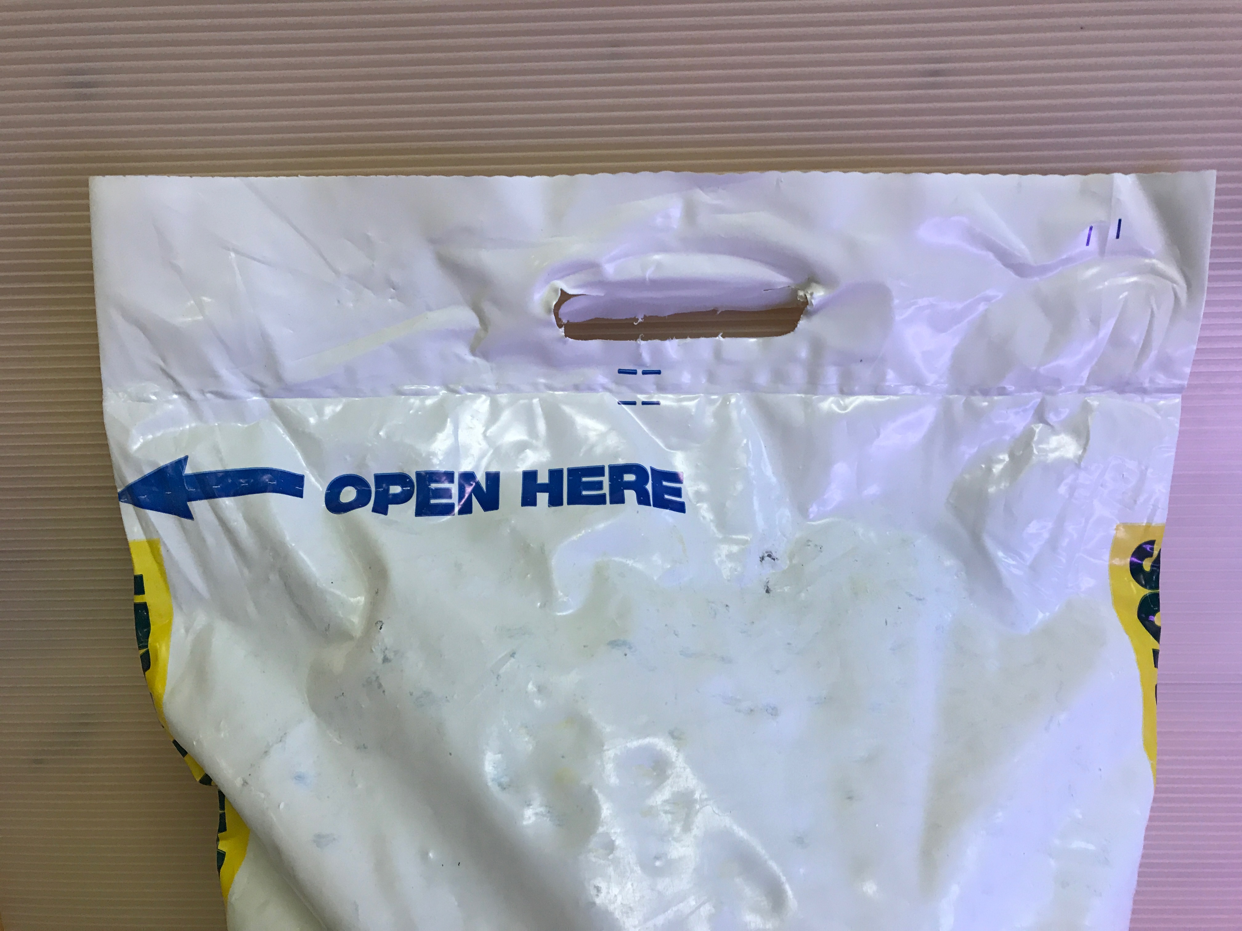 Bag of water conditioner salt with a hand hole die-cut through the heavy duty plastic